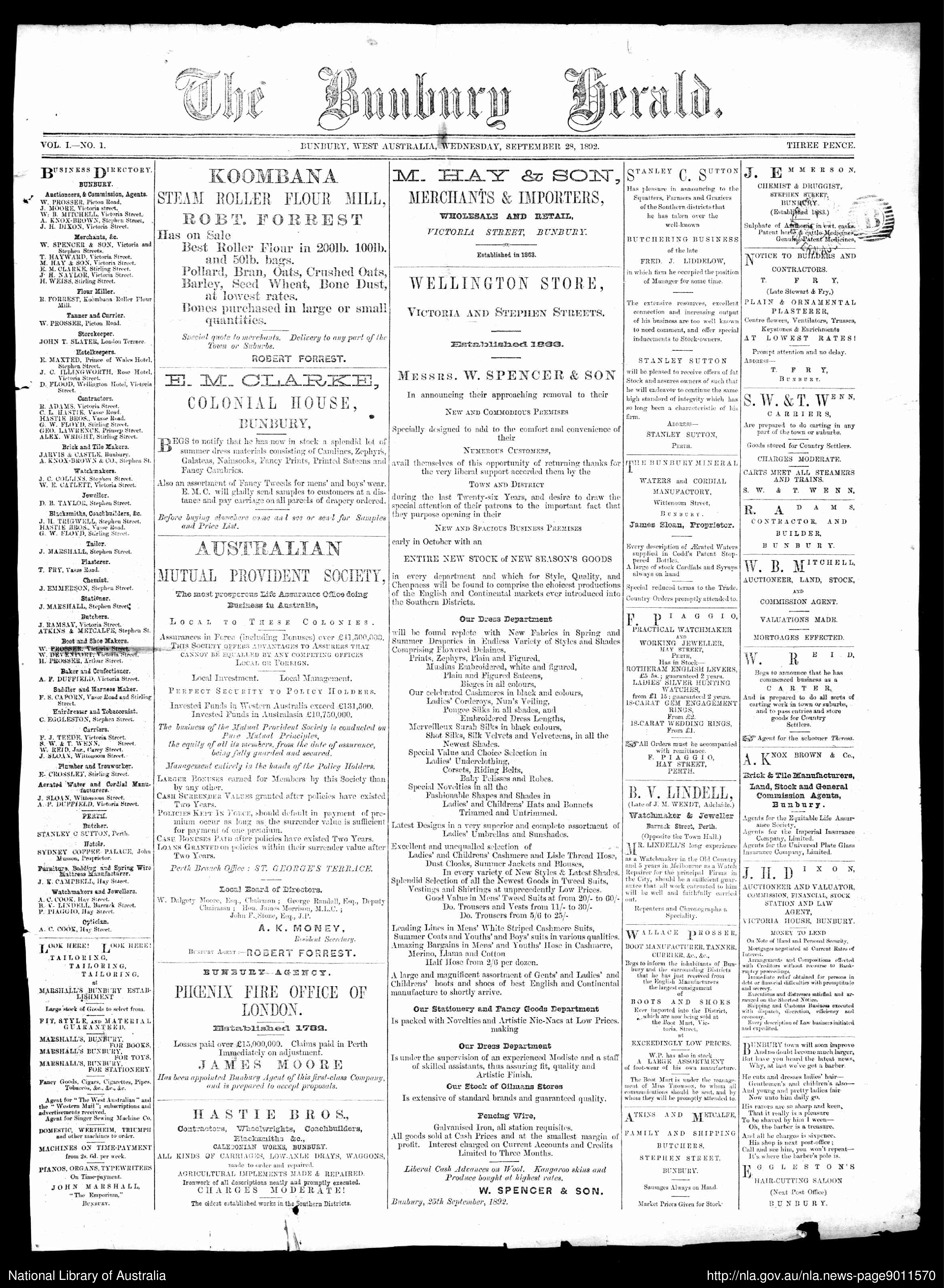 Front cover of the first edition of the Bunbury Herald